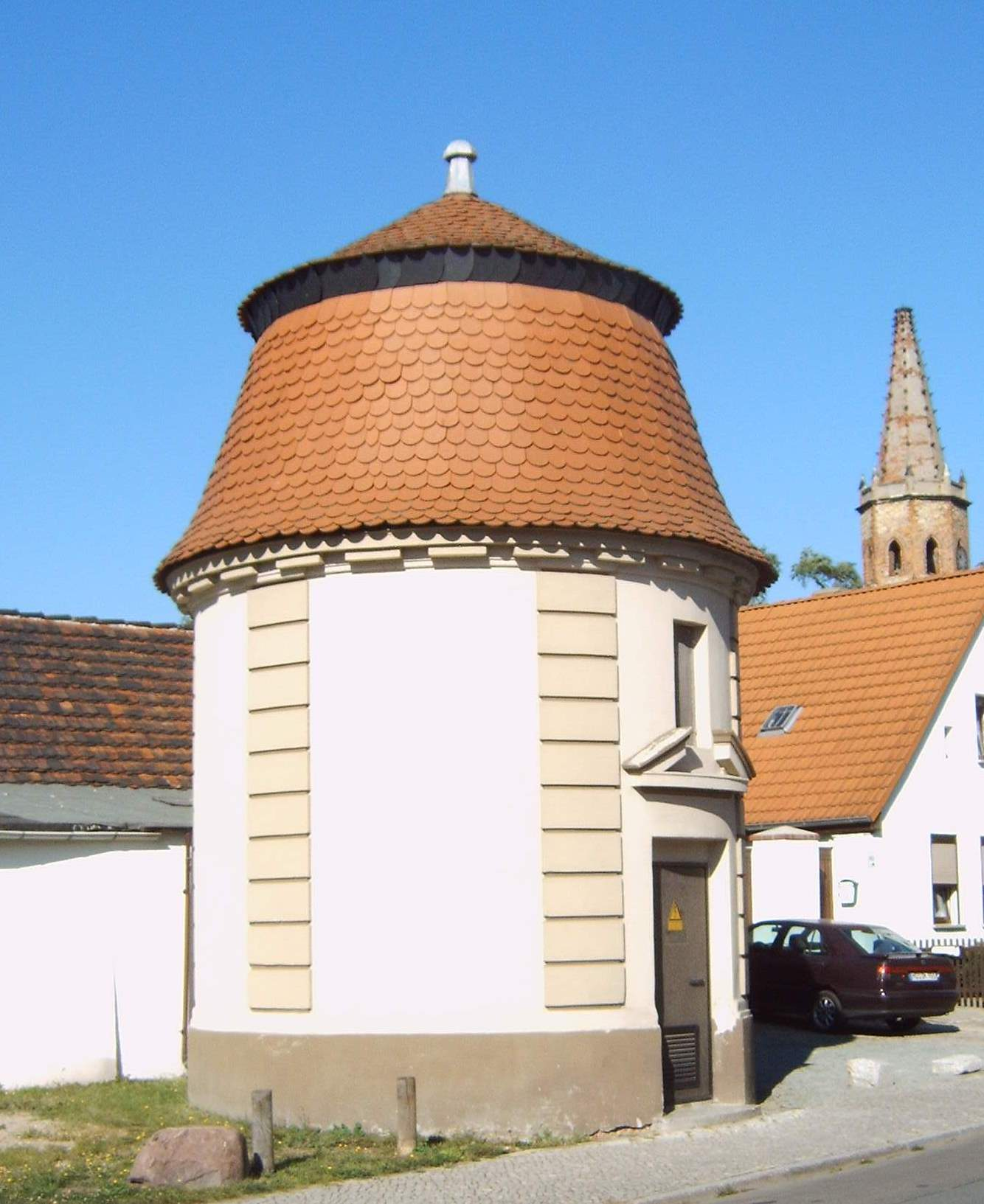 Trafostation Prester